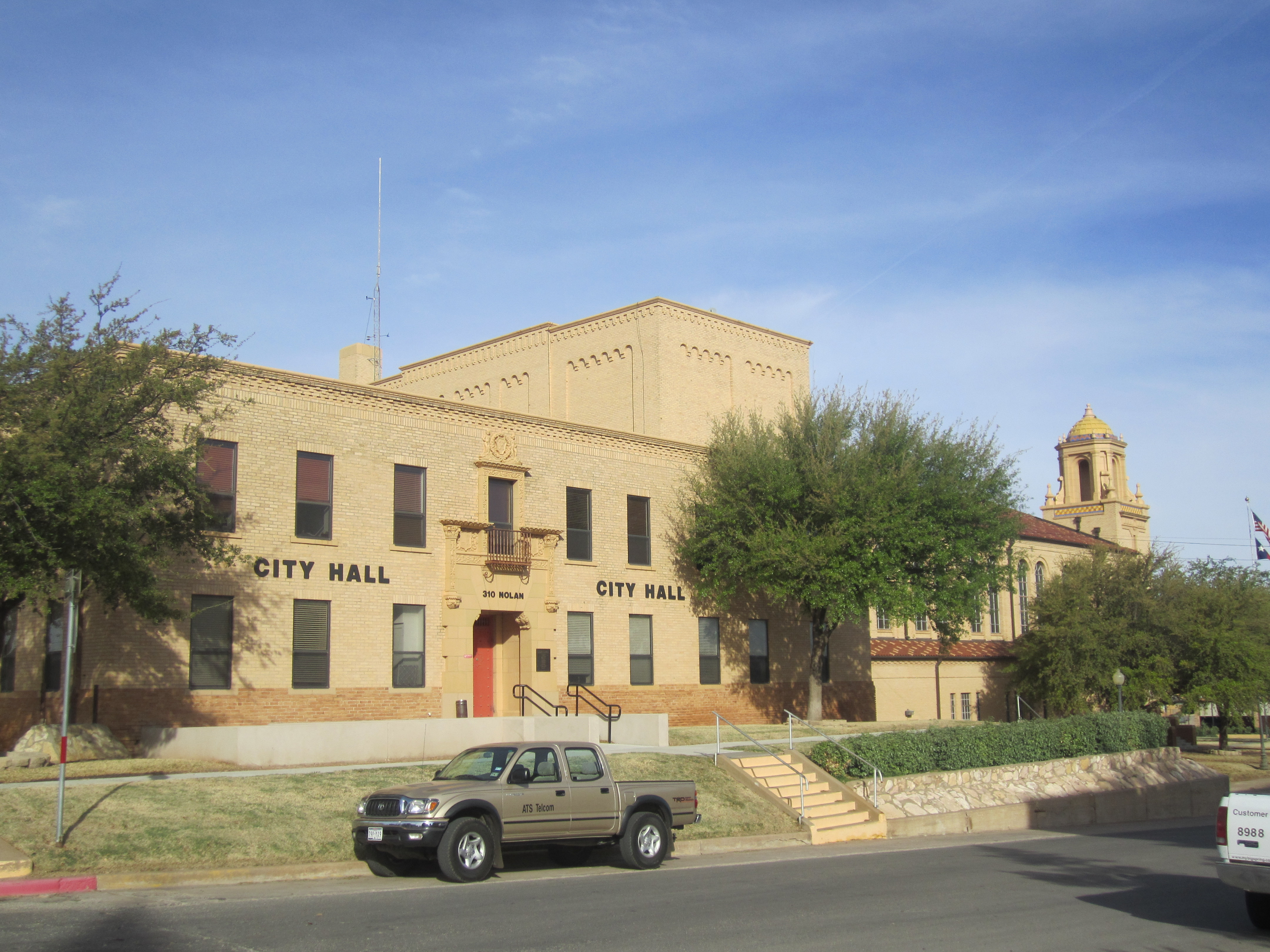 I took photo with Canon camera in Big Spring, TX.